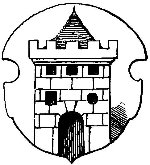 Coat of arms of Czerniejewo - by F. A. Vossberg (1866).